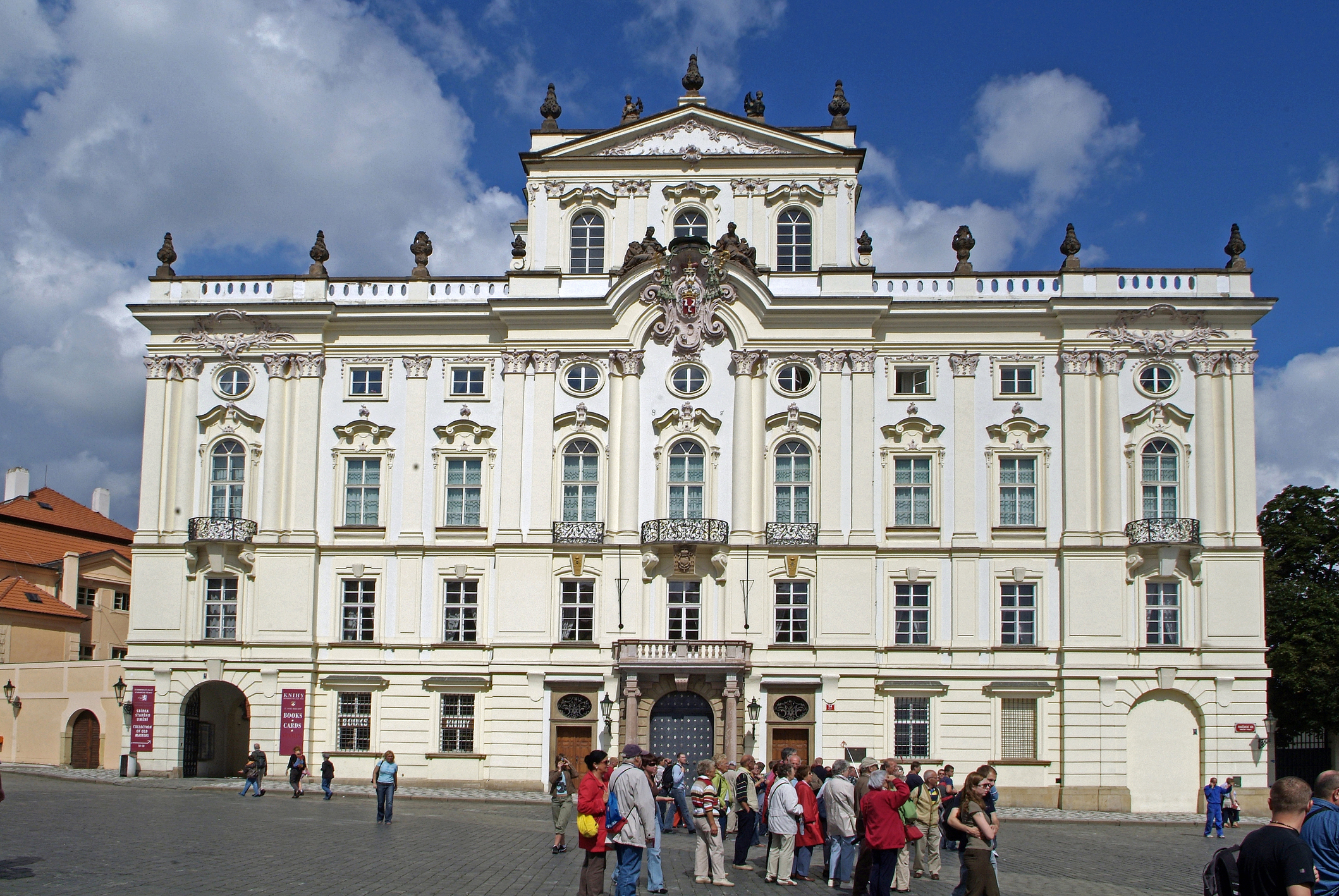 Archbishop Palace in Prague.